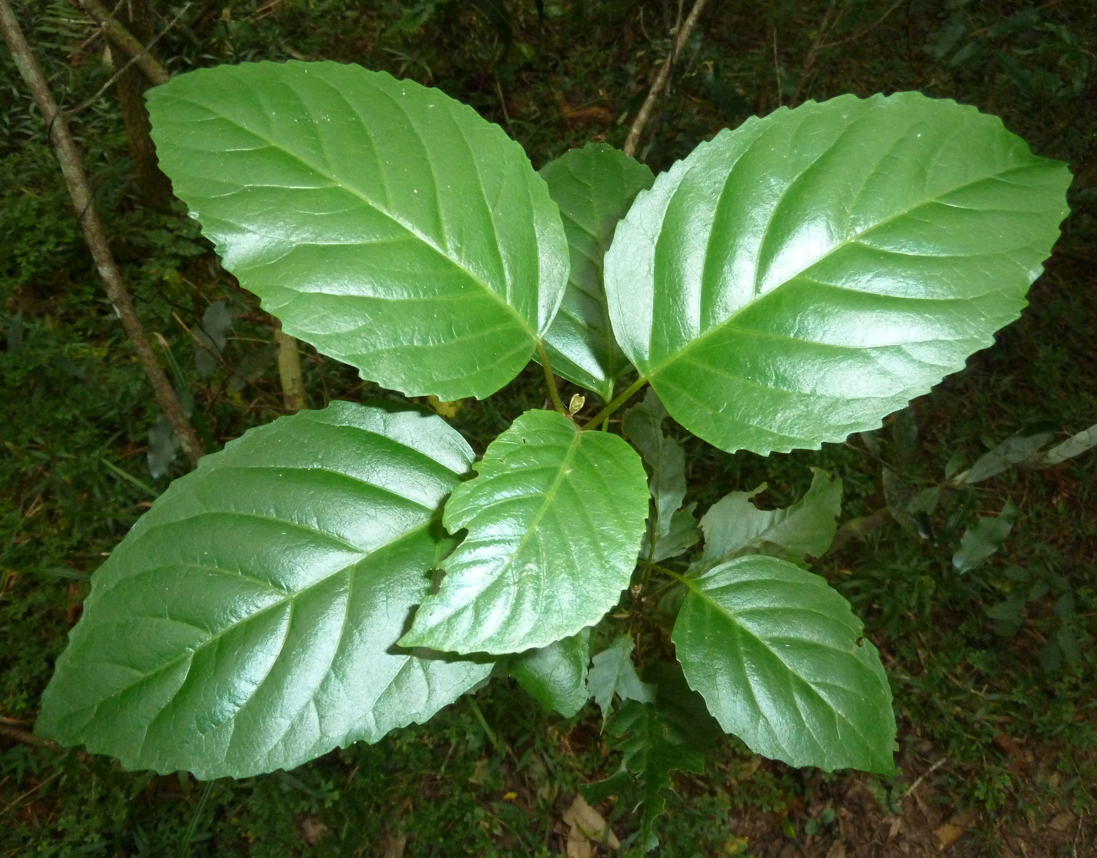 A False assegai sapling in the scarp forest of Krantzkloof Nature Reserve, KwaZulu-Natal